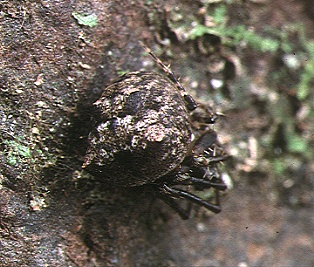 female Dolichognatha umbrophila from Okinawa.